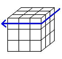 Notation for the Rubik's Cube, turning the up-layer clockwise (U)